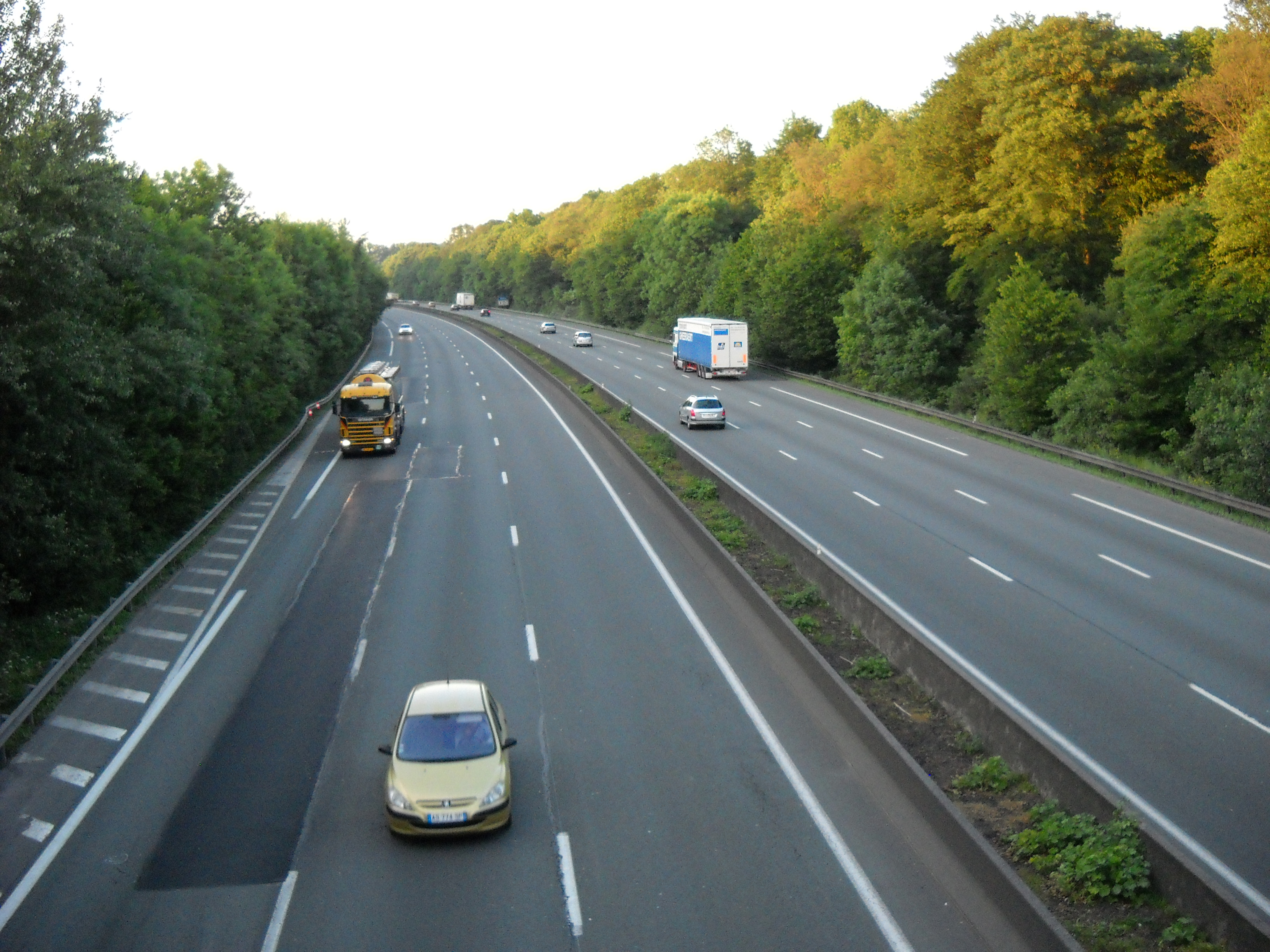 Motorway A1 in Phalempin, Nord, France.